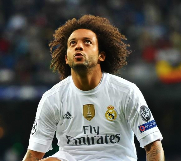 Marcelo Vieira